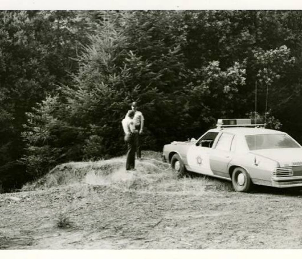 Crime scene where a pair of previously unidentified females found in California.